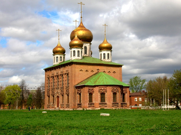 18th-century Uspensky Cathedral in Tula